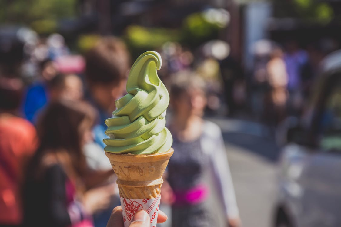 A cone of soft served green tea ice cream with a blurred background